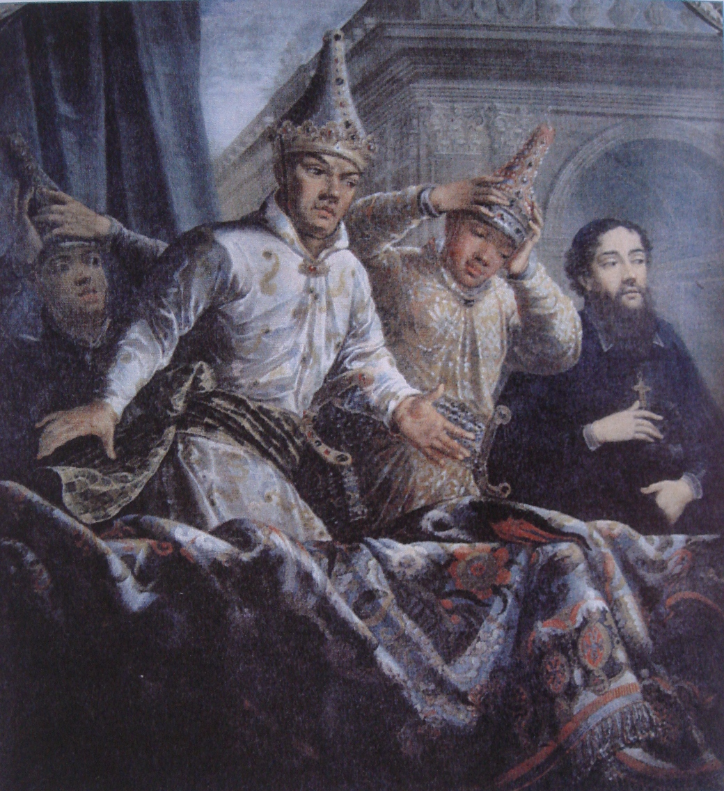 Siamese_embassy_1686_by_Jacques_Vigouroux_Duplessis